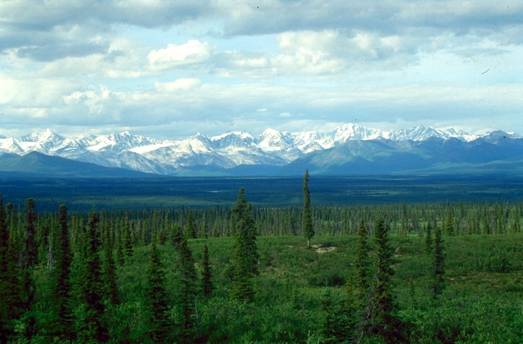 Picea glauca taiga, Denali Highway, Alaska; Alaska Range in the background.